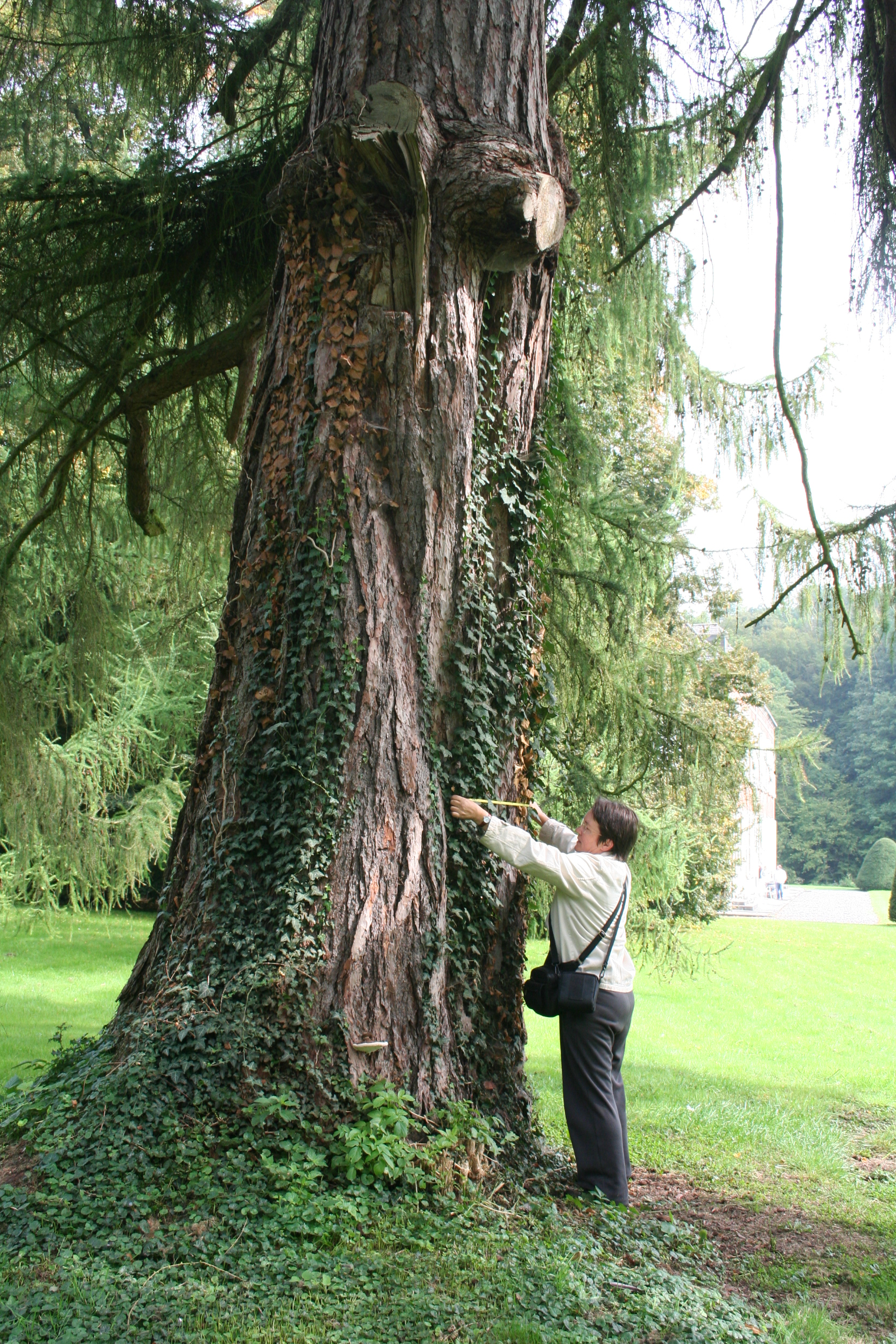 Écaussinnes-d’Enghien (Belgium), private park of the « la la Follie » castle – European Larch (Larix decidua) – (431 cm).